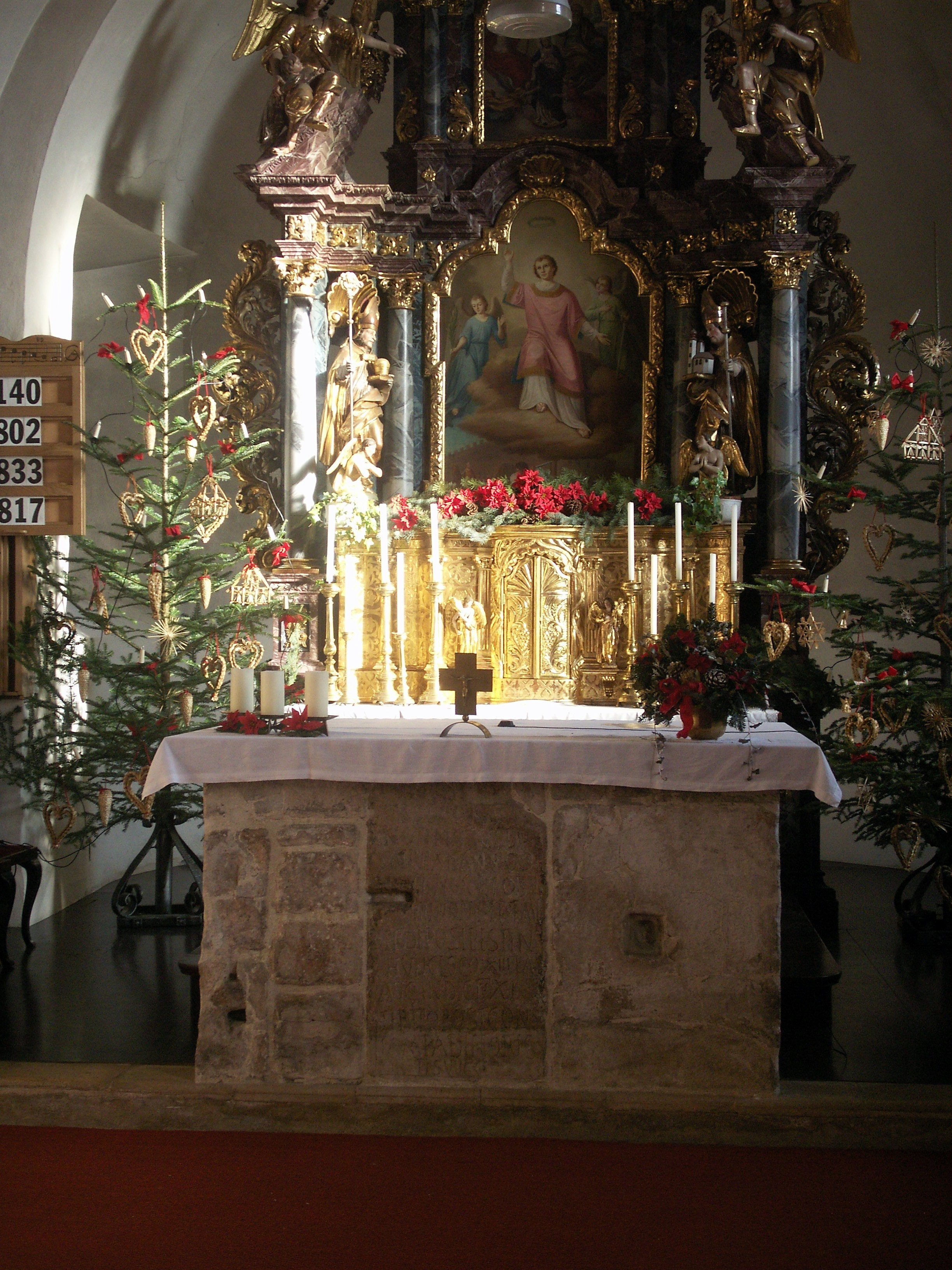 Altar with Nonnosus inscription in Molzbichl near Spittal an der Drau / Cartinthia / Austria / EU.